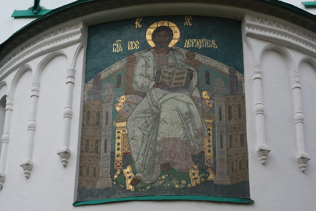 Feodorovsky Cathedral in Tsarskoye Selo. Apse